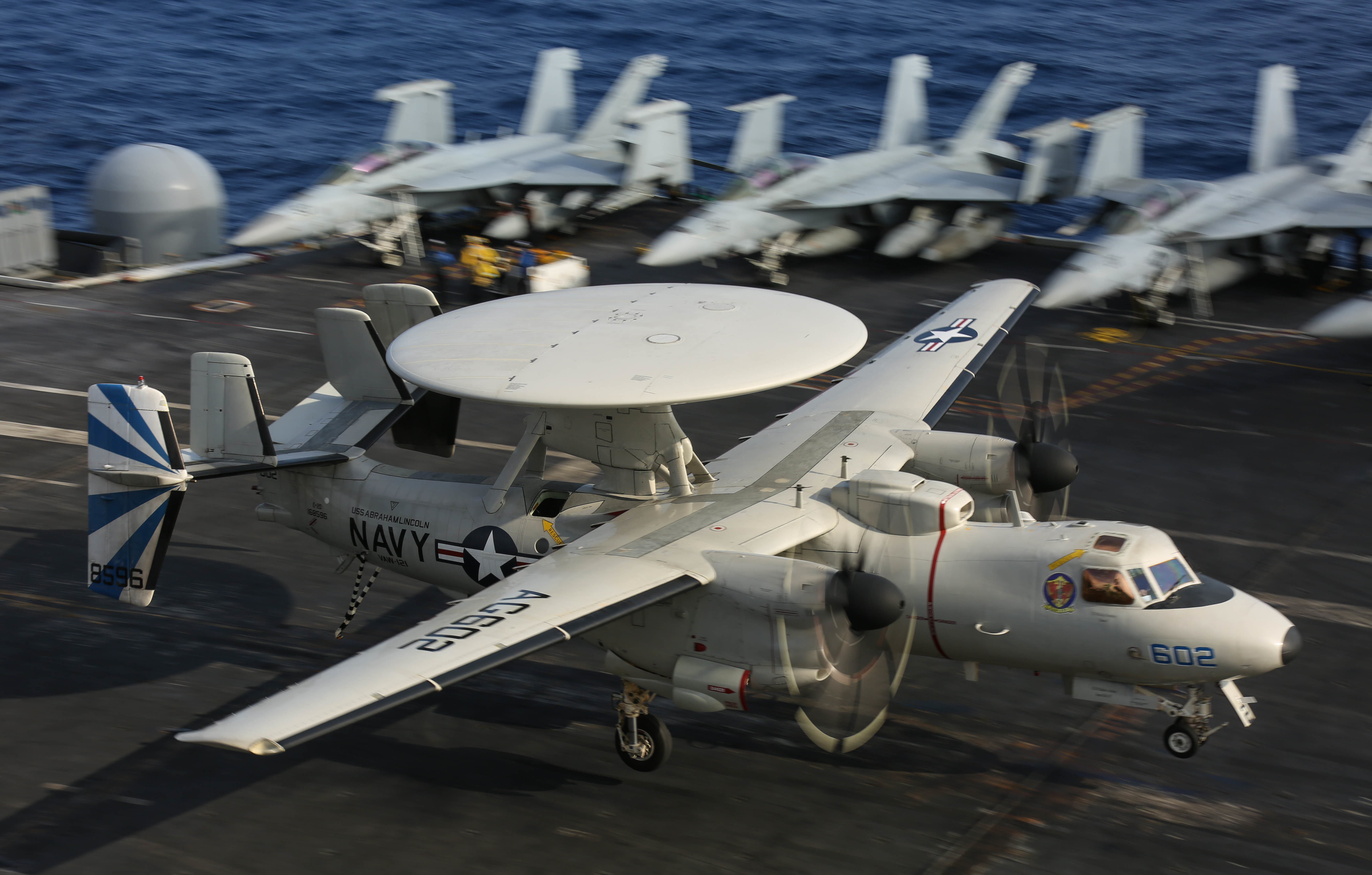 A U.S. Navy Northop Grumman E-2D Hawkeye (BuNo 168596) assigned to Carrier Airborne Early Warning Squadron 121 (VAW-121) "Bluetails" lands aboard the aircraft carrier USS Abraham Lincoln (CVN-72) in the Atlantic Ocean on 18 February 2019. VAW-121 was assigned to Carrier Air Wing 7 (CVW-7) aboard the Abraham Lincoln for a a composite training unit exercise (COMPTUEX) off the U.S. East Coast from 25 January to 23 February 2019.